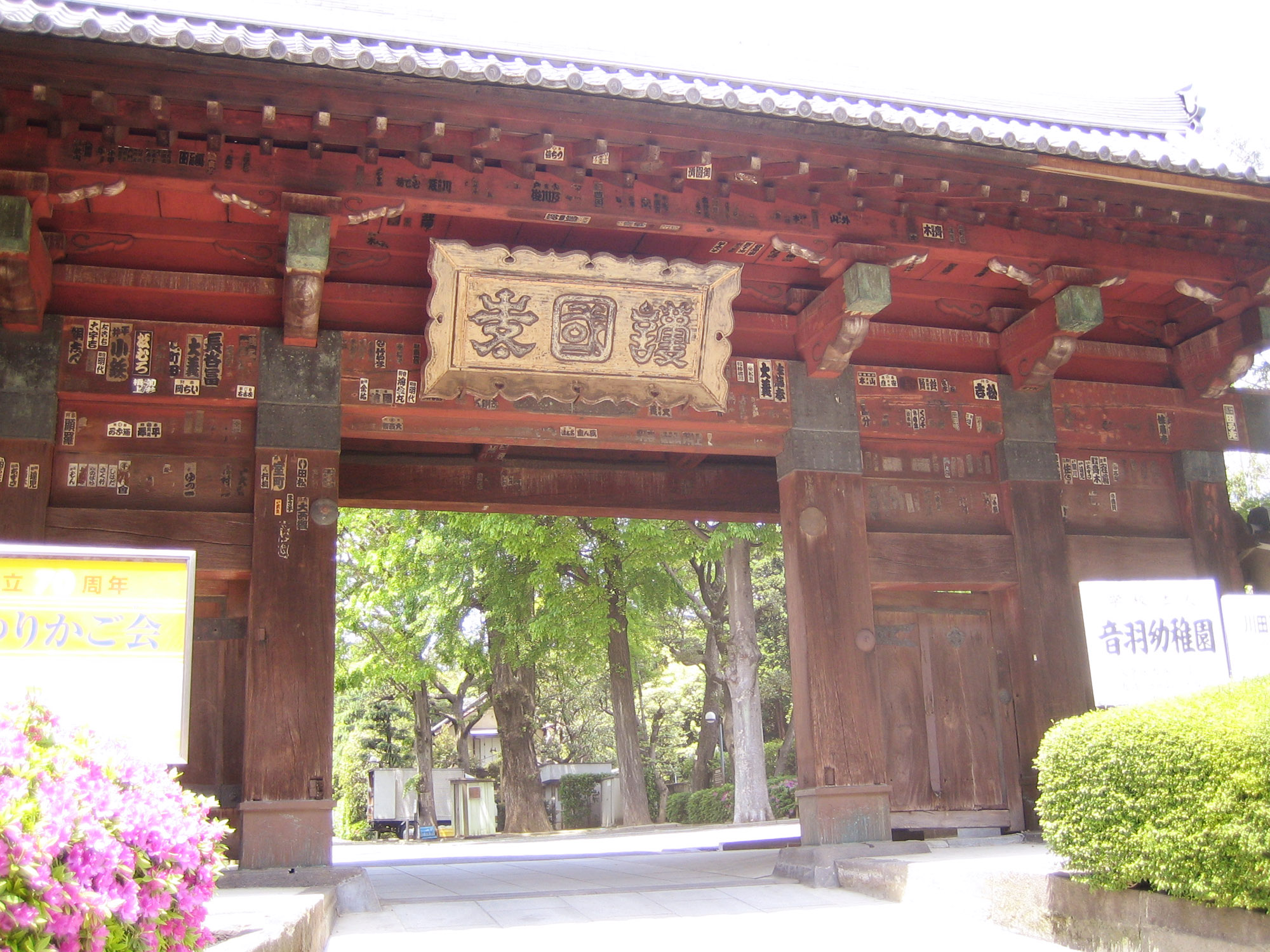 Gokoku-ji (護国寺), in Bunkyo, Tokyo, Japan